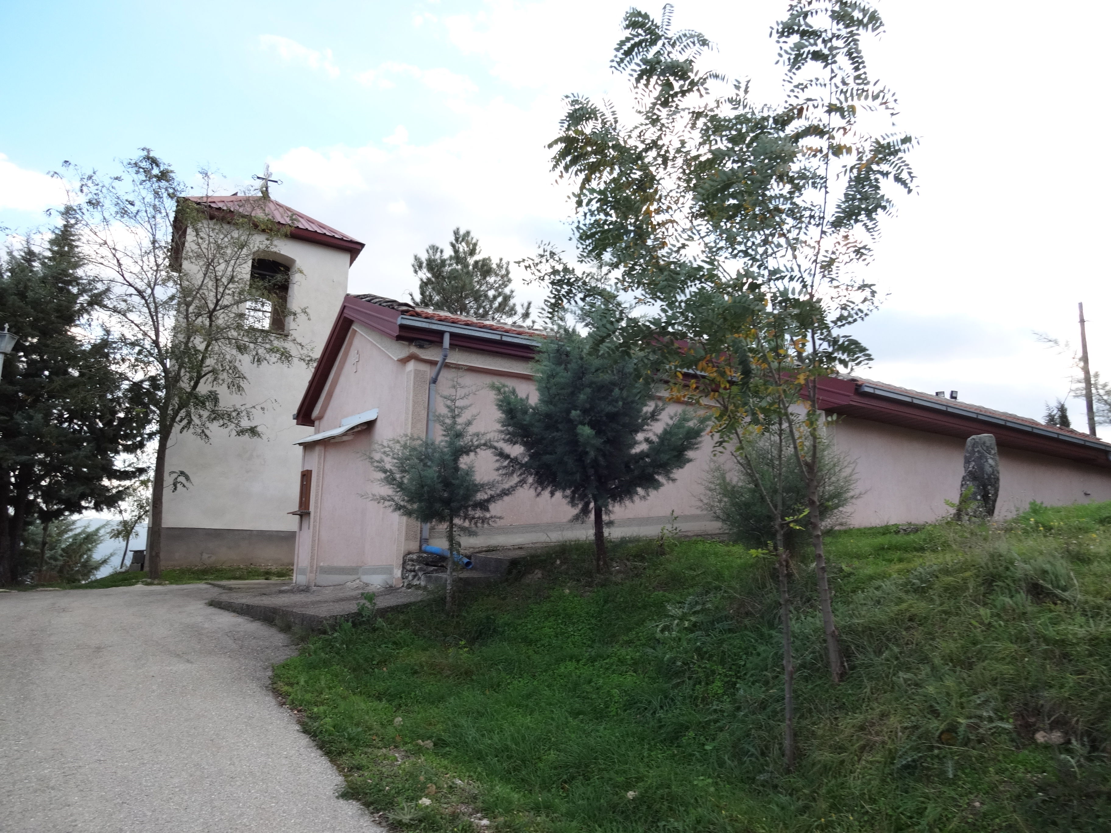 Nativity of the Theotokos Church in Brazda near Skopje, Macedonia